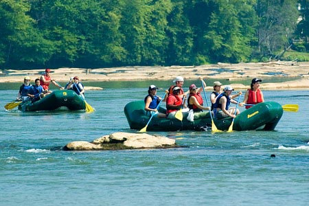 Visitors on rafts, canoes and kayaks in the Chattahoochee River